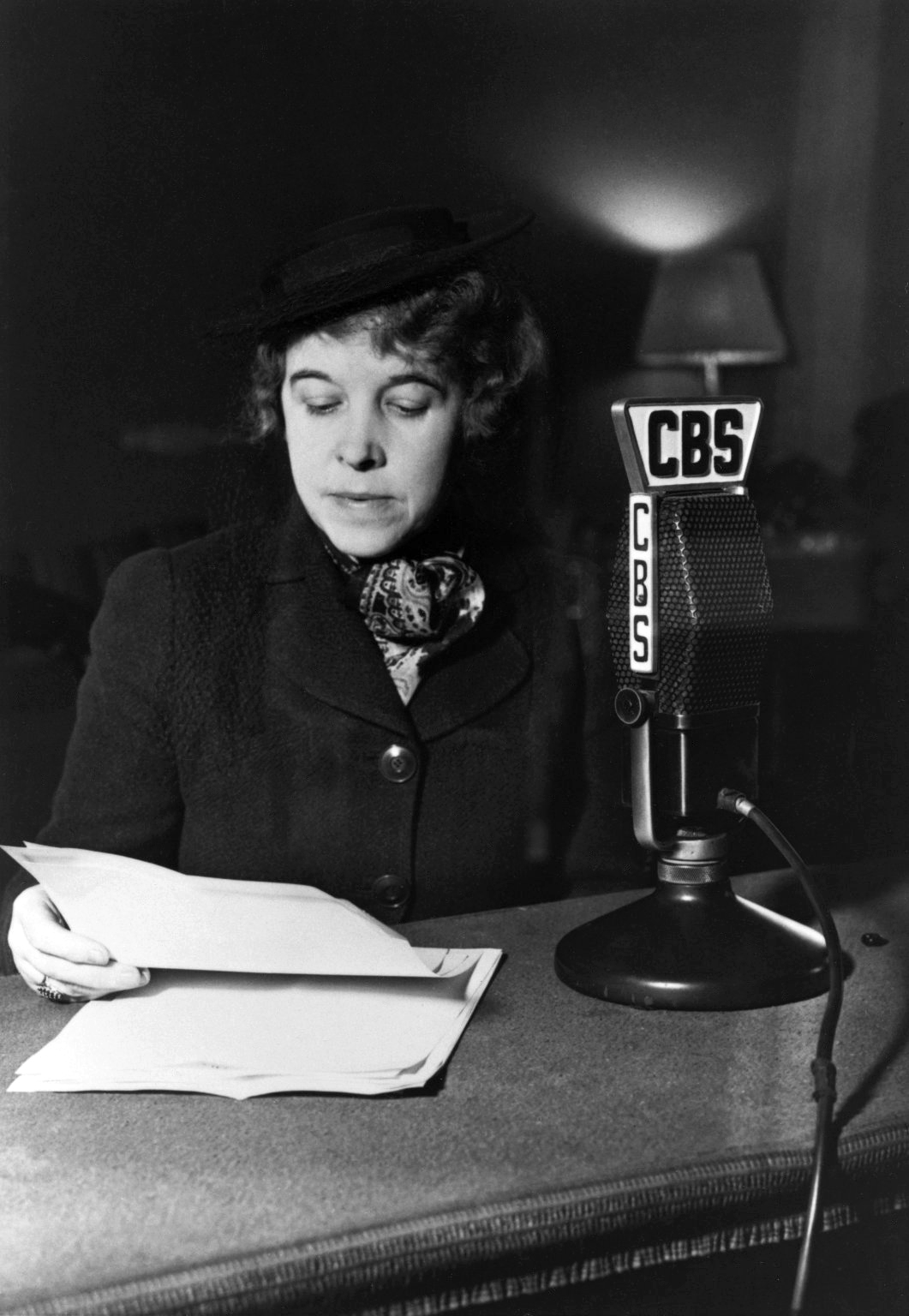 Photograph of Hallie Flanagan, national director of the Federal Theatre Project, speaking on CBS Radio